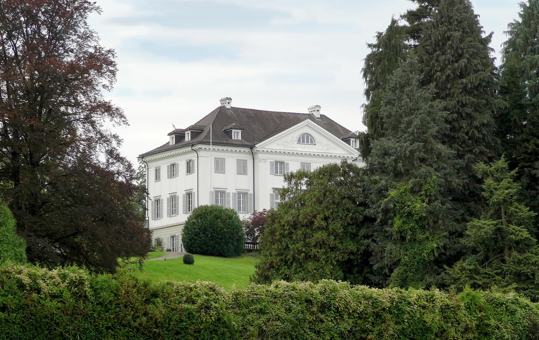 Eugensberg Castle, Salenstein, Switzerland. Northeast corner